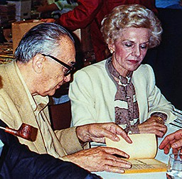 A. E. van Vogt and Lydia van Vogt at a book signing (a crop of Harlan Ellison